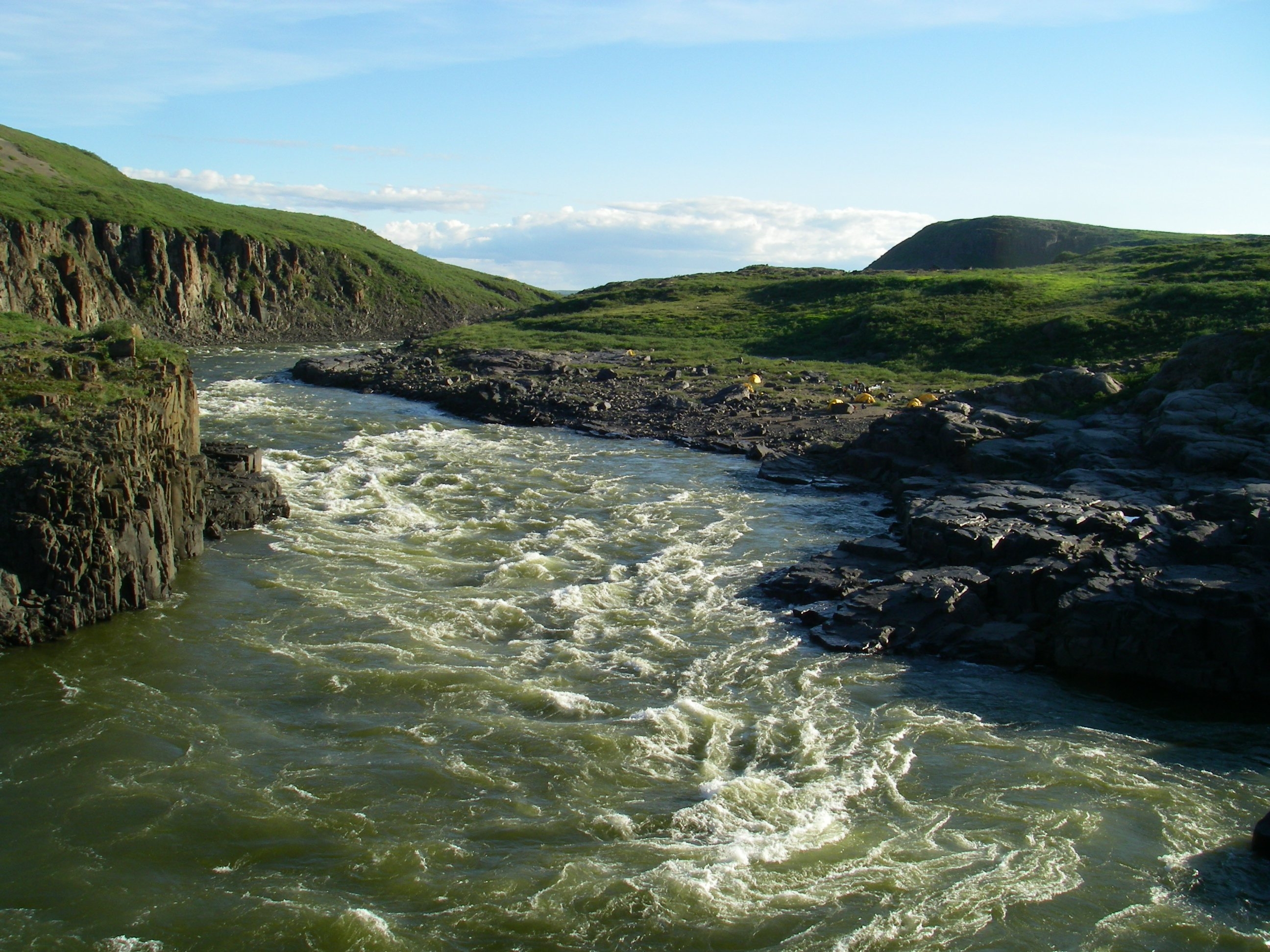 Rapids and campsite above Bloody Falls, Kugluk Territorial Park, Nunavut, Canada